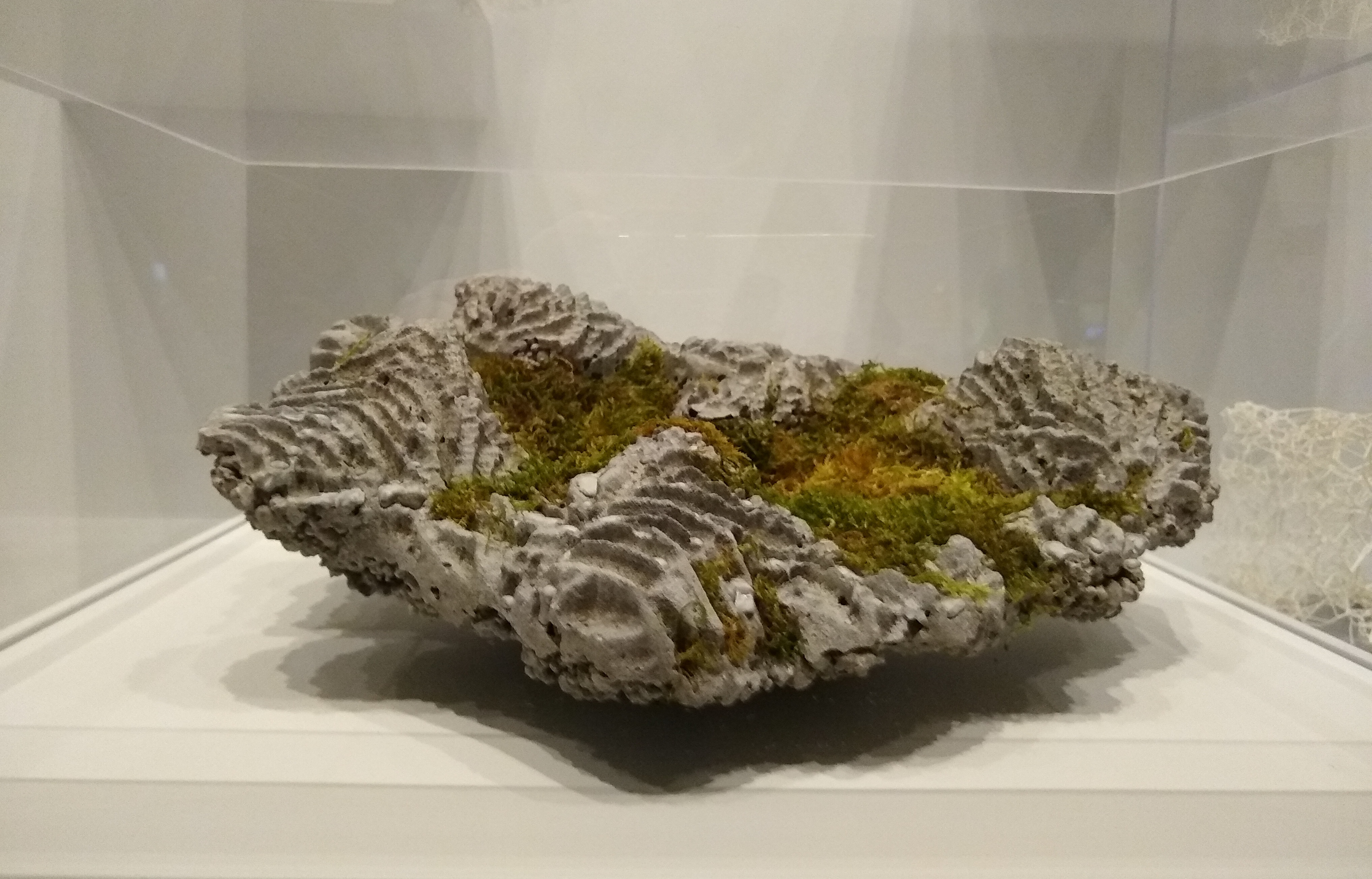 Sample of Bioreceptive lightweight concrete material, designed by Marcos Cruz, Richard Beckett and Javier Ruiz Bartlett School of Architecture . Displayed as part of the exhibit "Designs for Different Futures" at the Philadelphia Museum of Art 2019-2020. The material has been designed to encourage the growth of moss, lichens, and algae that reduce air pollution.